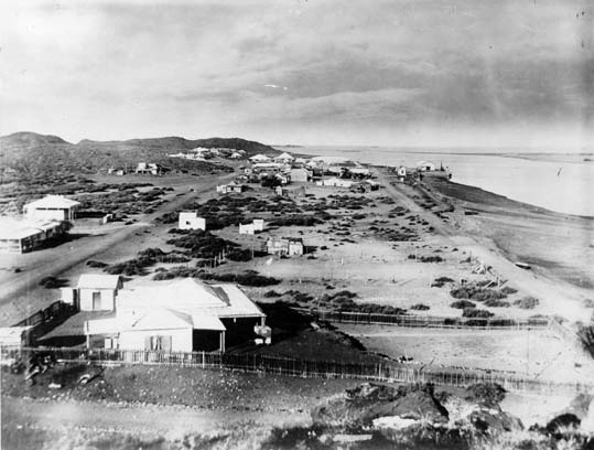 1 photoprint : b&w. of Cossack in Western Australia. Published in 1898.